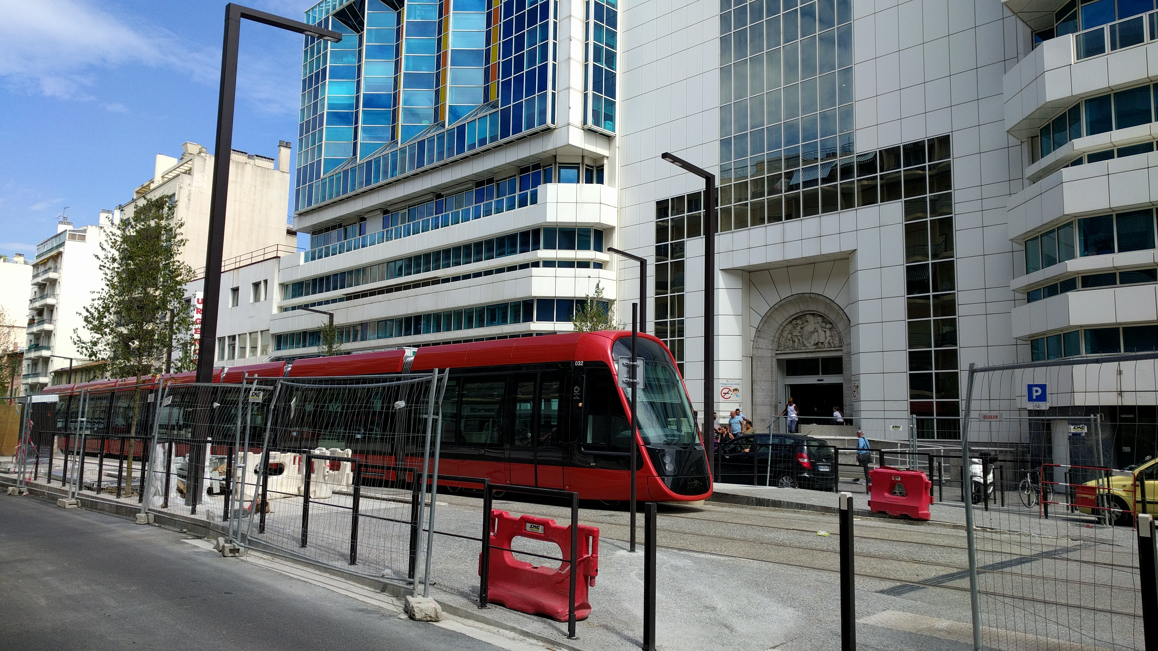 Tramway line 2 trials